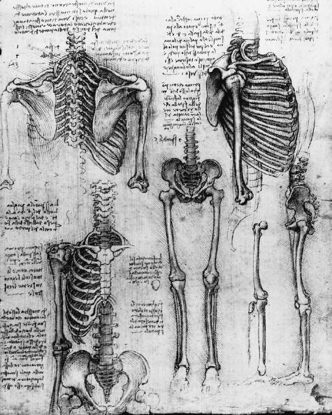 Skeleton, Windsor Castle.